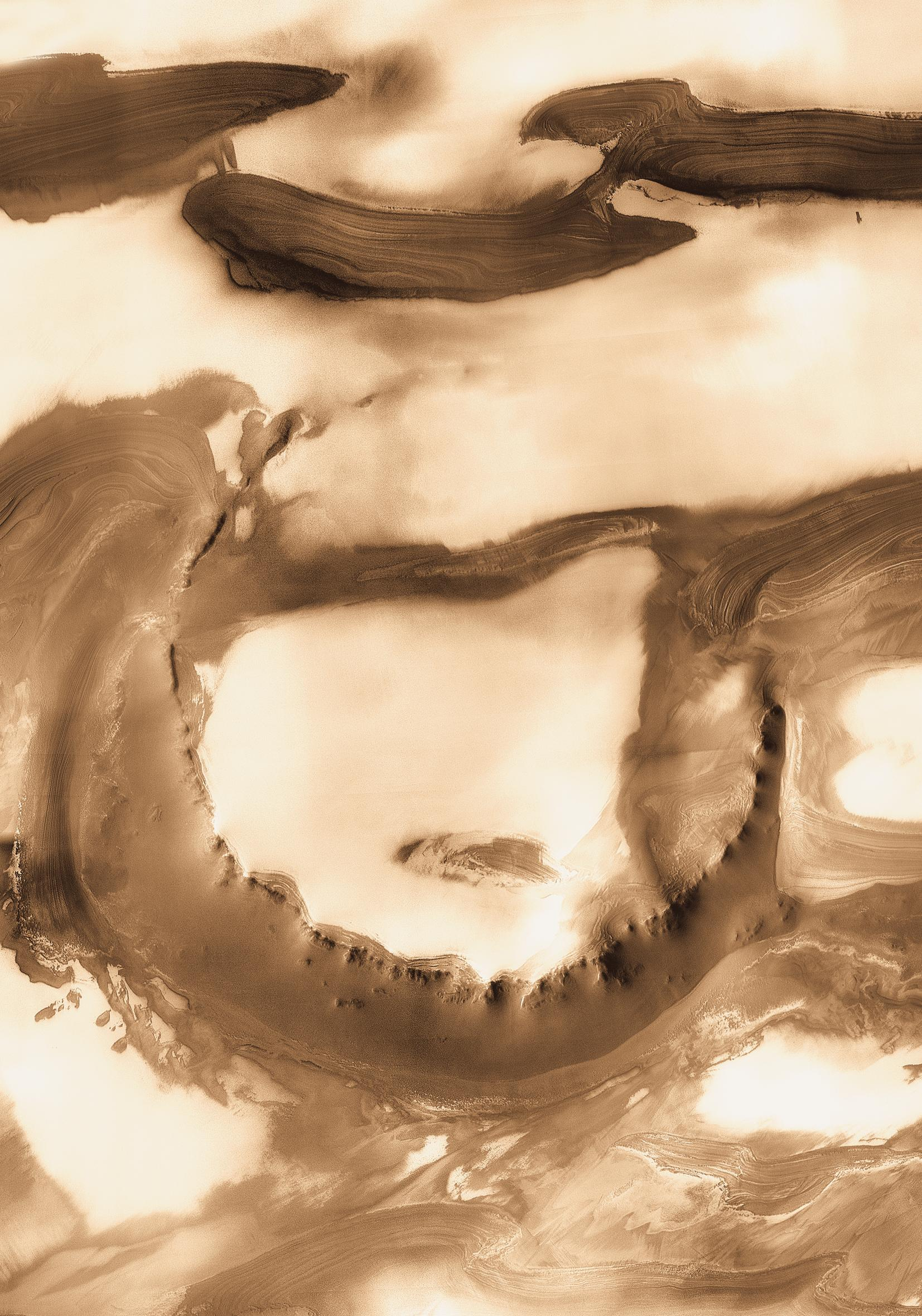 Udzha Crater is 45km in diameter, but almost entirely covered by polar ice deposits, so much so that only the top most part of the rim hints at its circular shape.